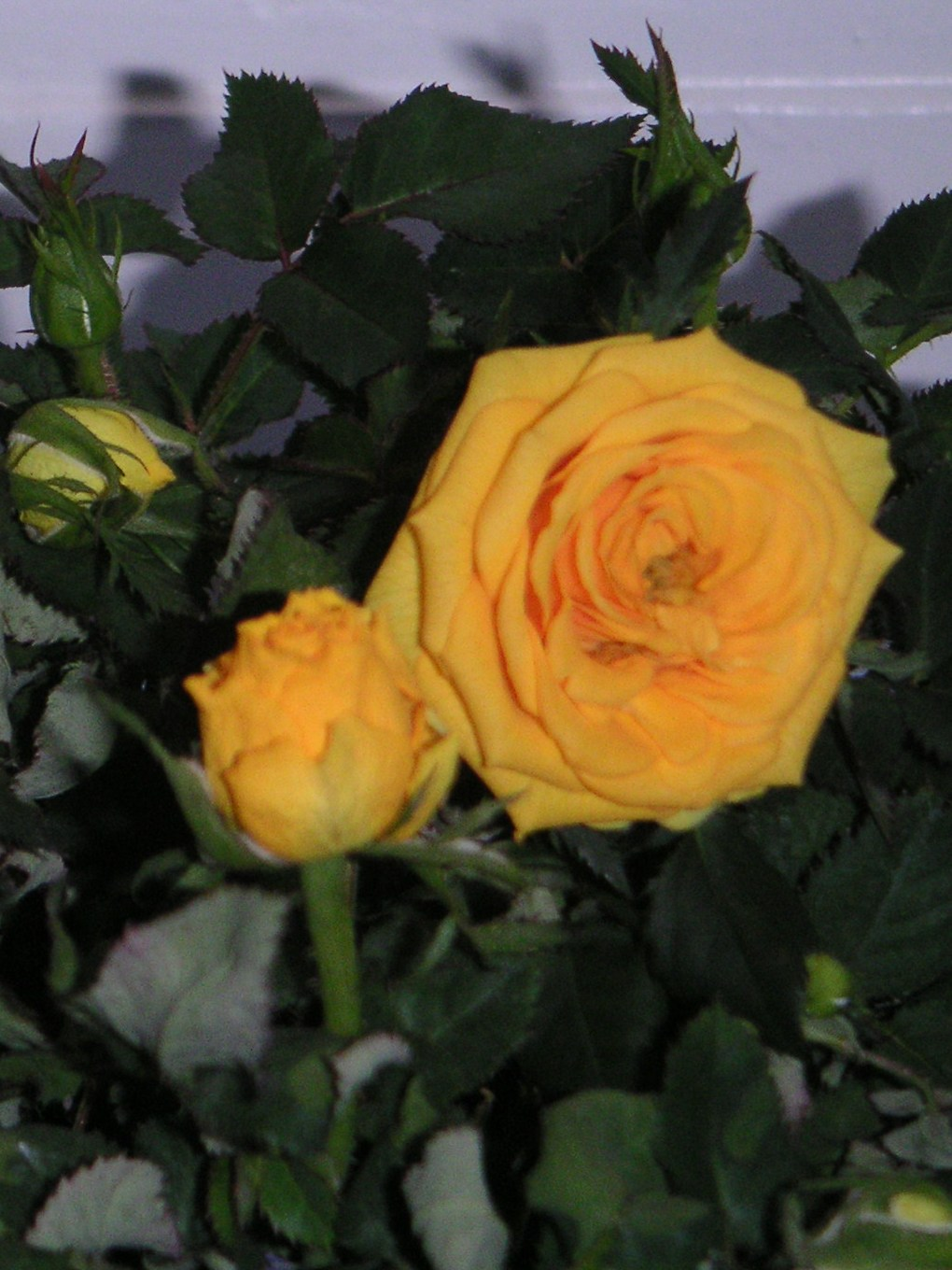 Nanking Forever - the Sindberg Rose